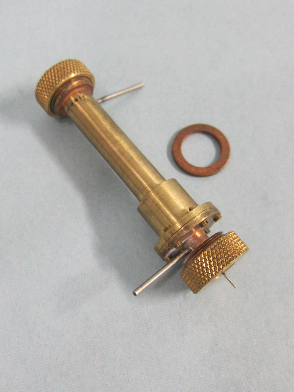 Electron Capture Detector: Bronze color, metal rod with short pin extending from small white plastic cap at both ends; 2 longer, pins extend in opposite directions perpendicular to the central rod; two circular caps with textured edge screw onto both ends of device; separate metal ring included. The Electron Capture Detector detects molecules in a gas via electron capture ionization and is used in gas chromatography to detect traces of chemicals in a given sample.